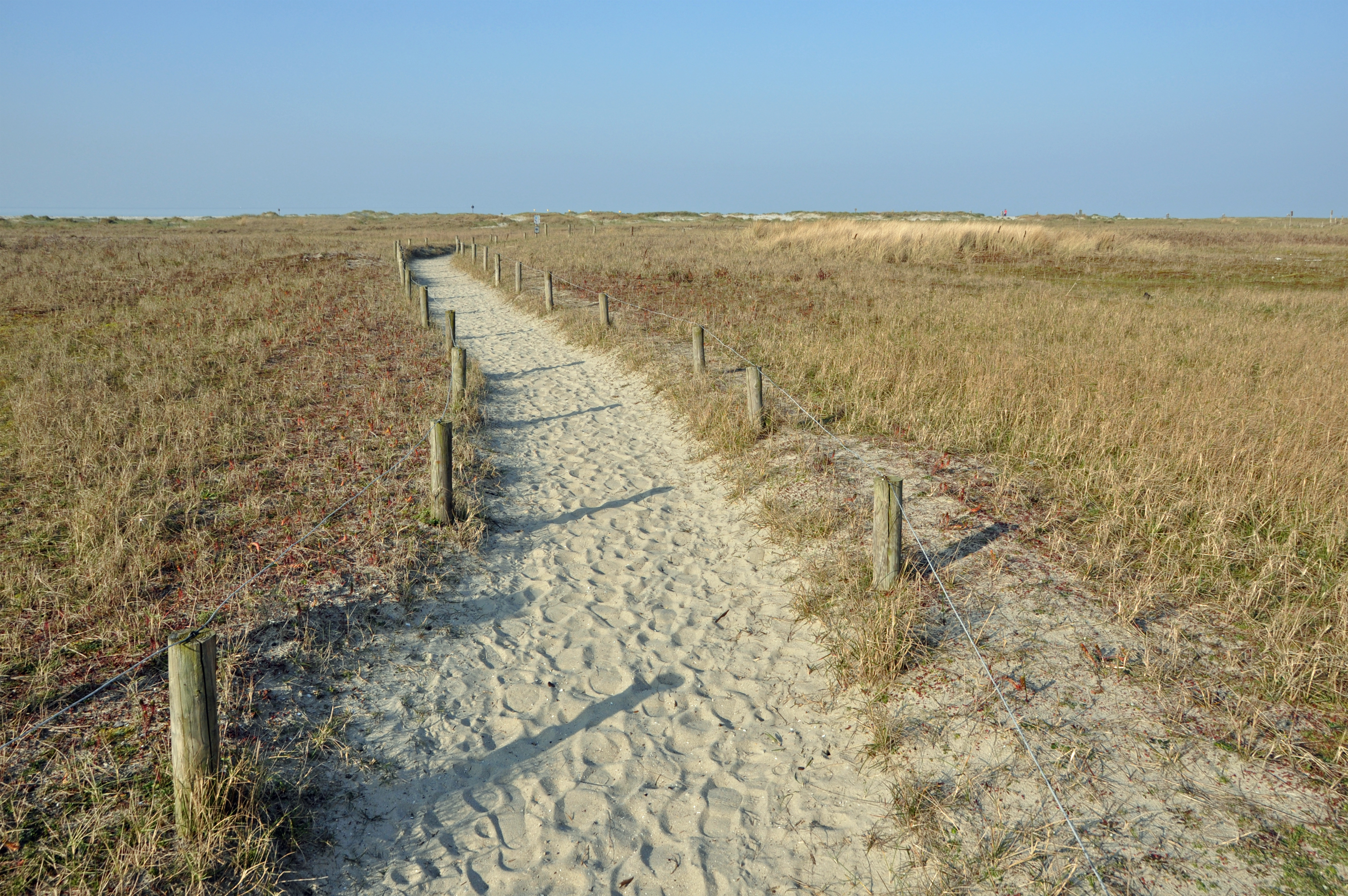 Knokke-Heist (Belgium): nature reserve of the Baai van Heist